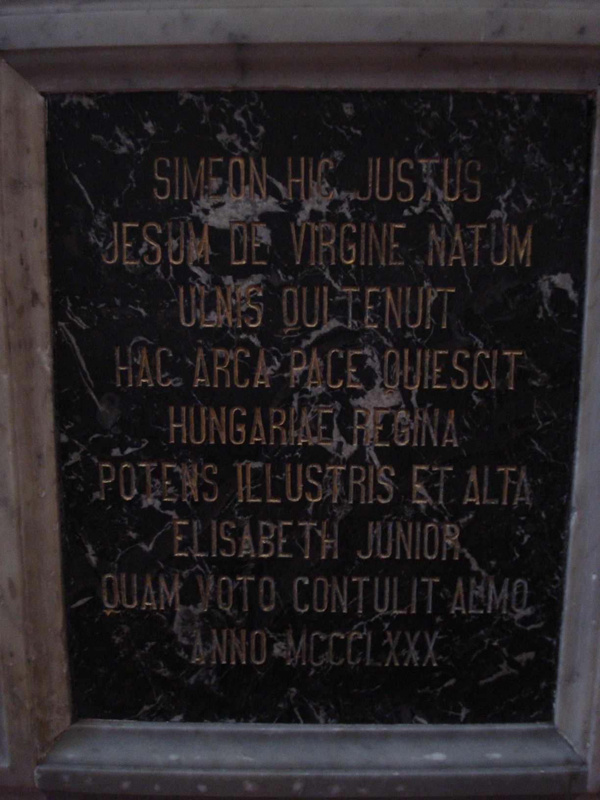 St. Simeon's casket from 1380 in the Church of St. Simeon the Elder, Zadar, Croatia - stone inscription under the casket